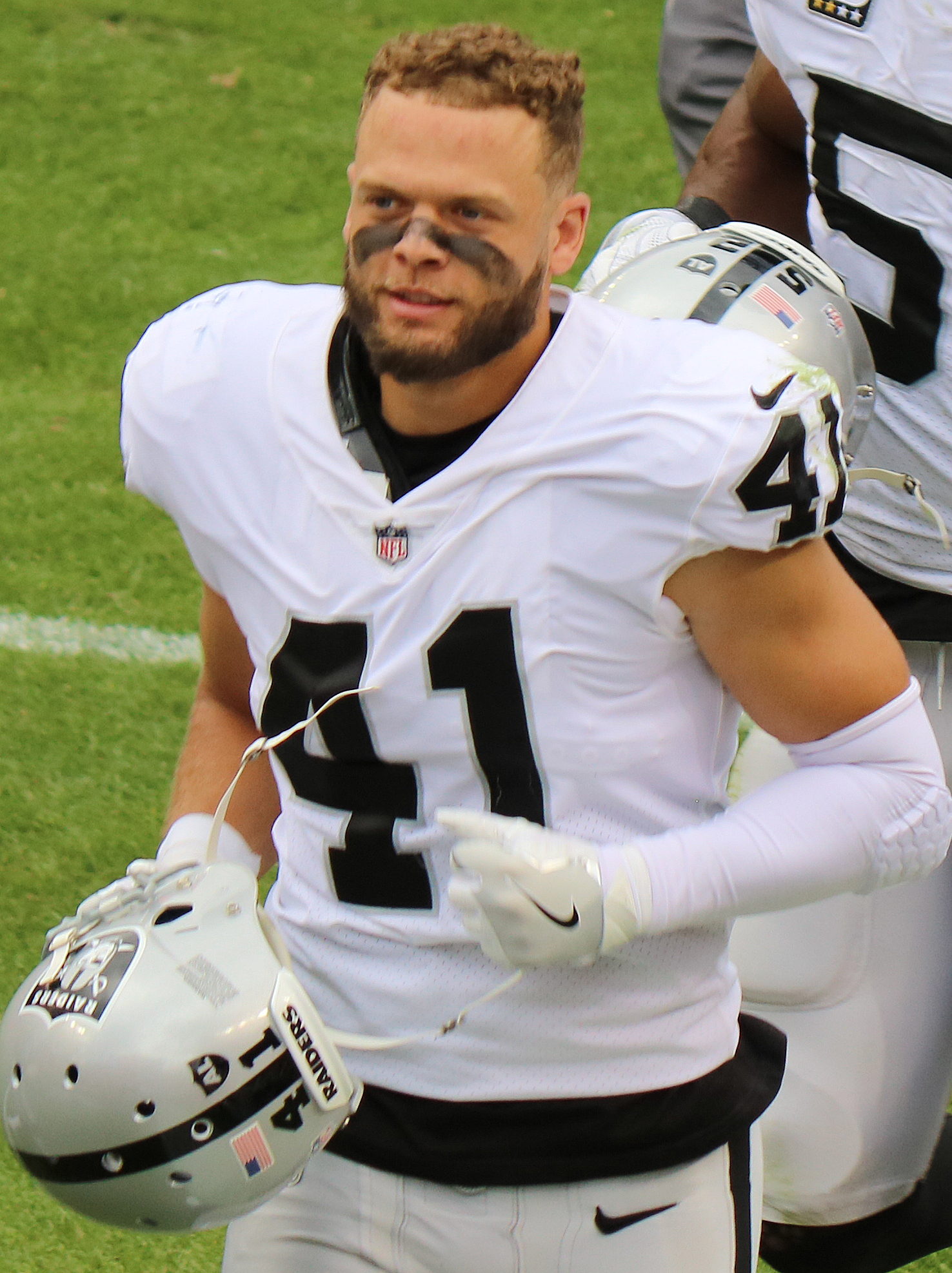 Erik Harris, a player on the National Football League.